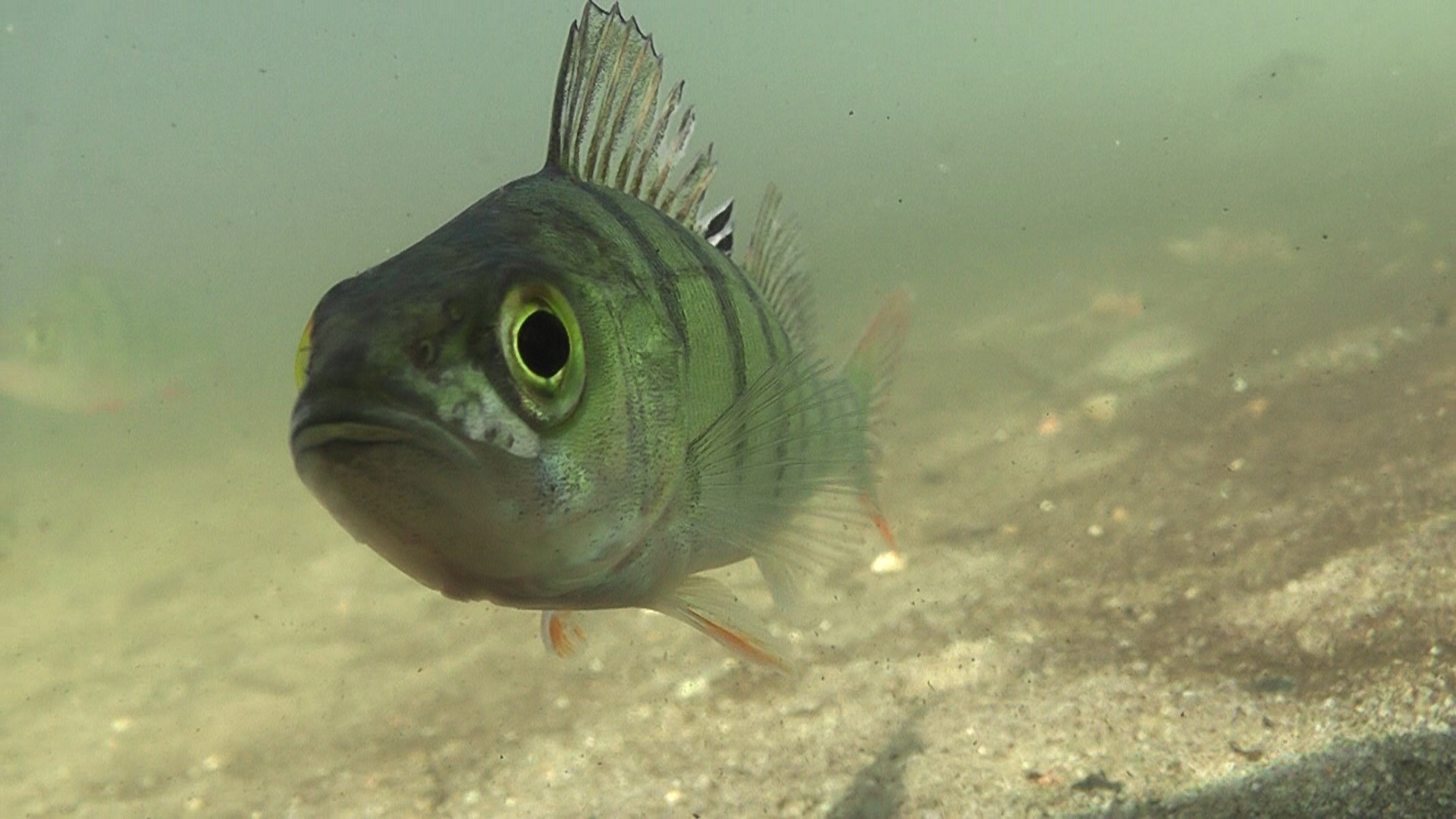 The perch was recorded in the Grosser Klobichsee in Brandenburg. It is about 10 cm long.